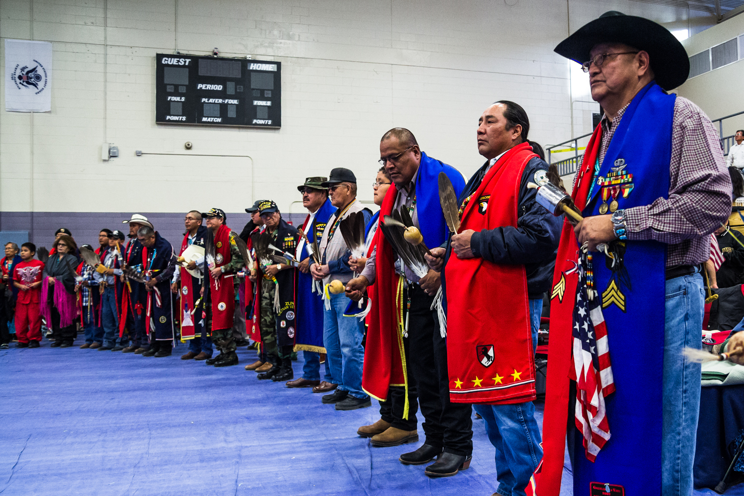 13th Annual NCI New Year's Eve Sobriety Pow Wow and Gourd Dance at the Miyamura High School Gym in Gallup, NM on December 31, 2011.